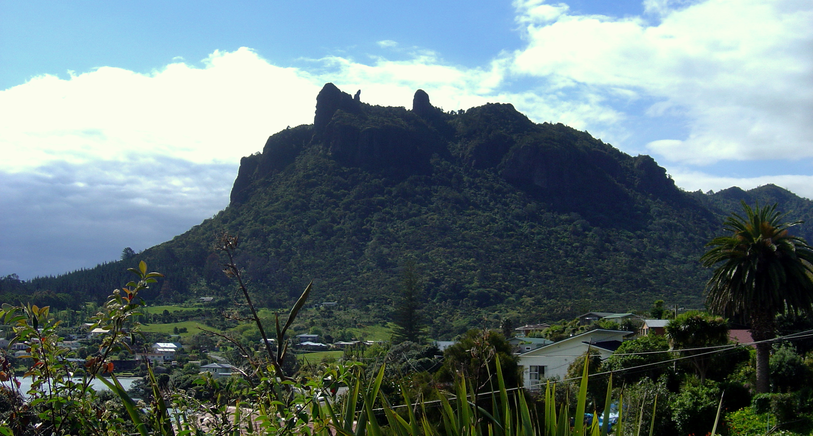 Mt Manaia viewed from Taurikura township near the Whangarei Heads